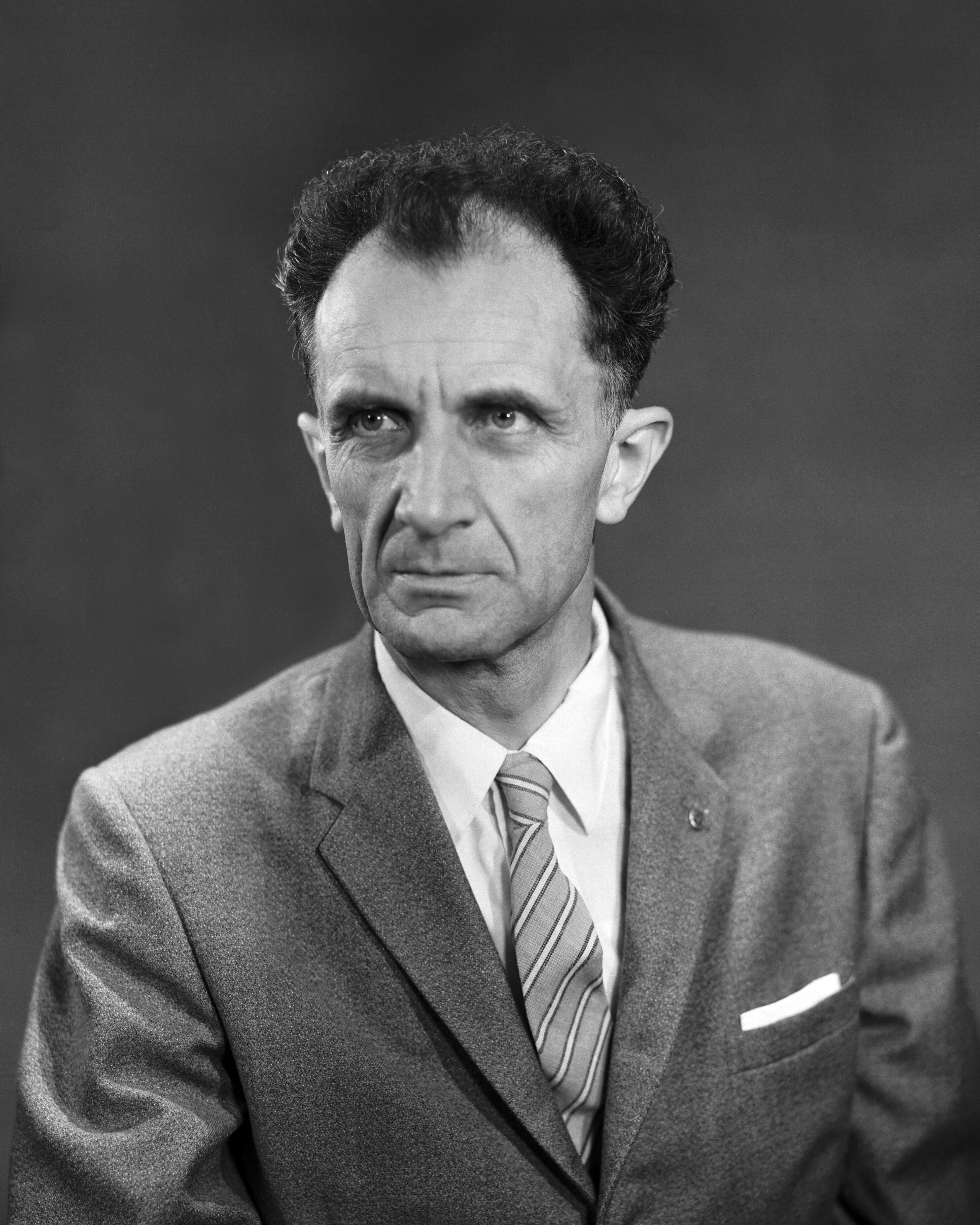 Adolf Busemann at Langley. This picture has usage restrictions